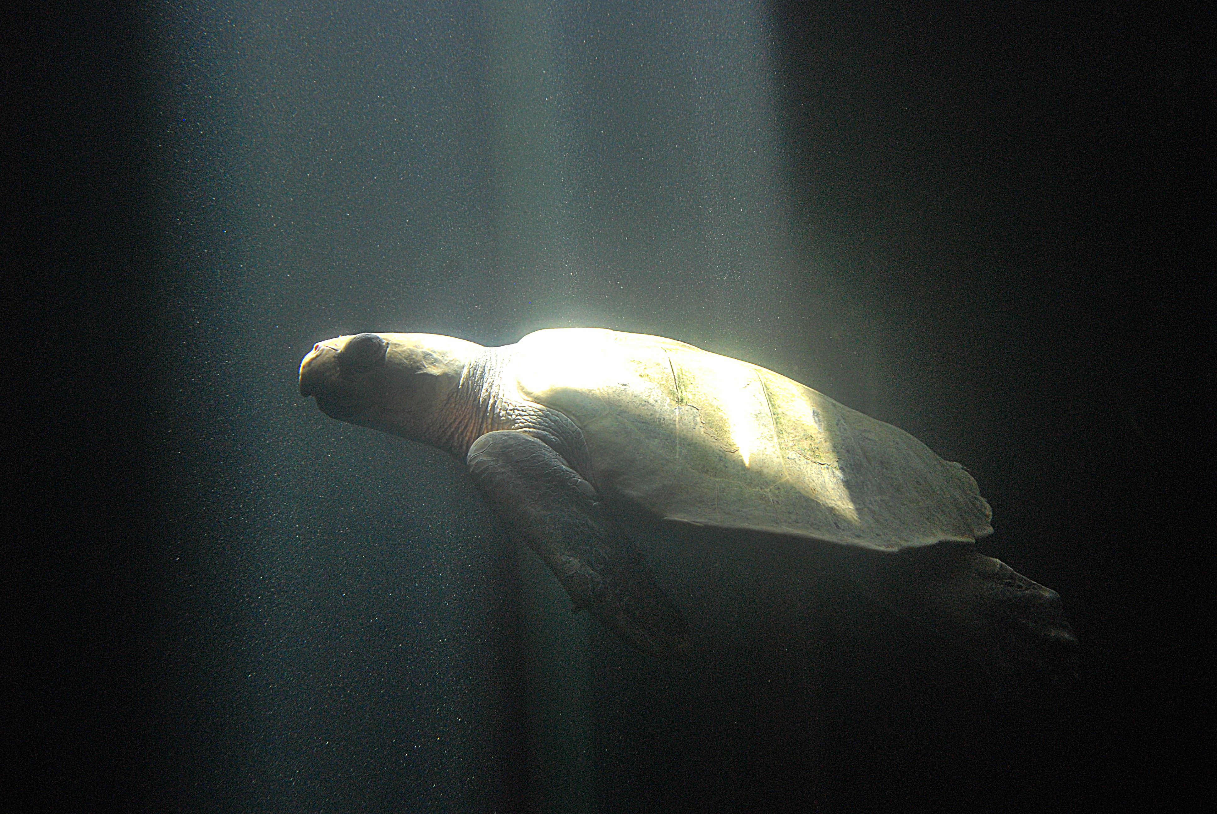 Lepidochelys olivacea swimming in Mazunte aquarium